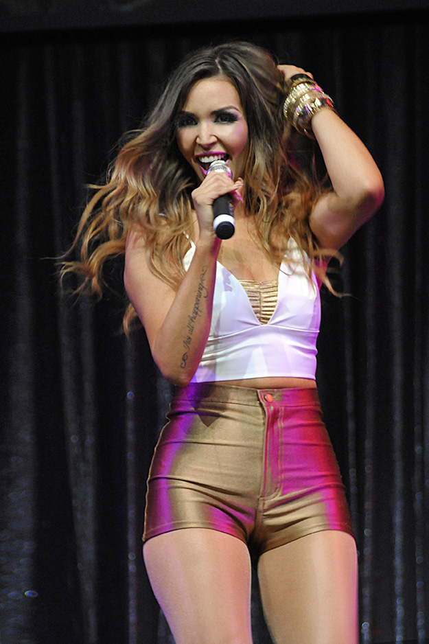 Scheana Marie Performing at the Saban Theatre in Beverly Hills, California on March 16, 2014